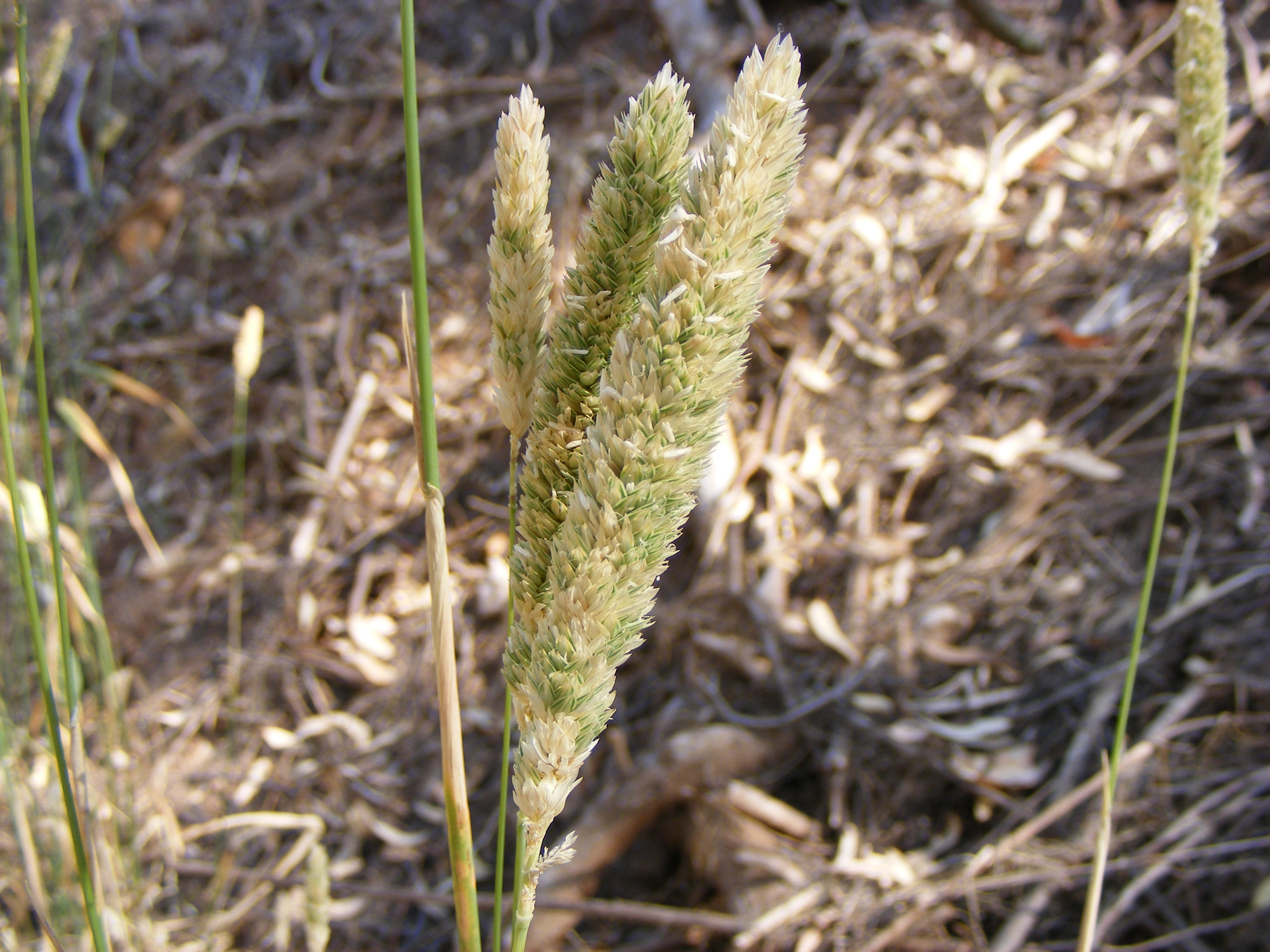 Phalaris (Phalaris aquatica) on the banks of Cobbler Creek. Cobbler Creek Recreation Park, Salisbury East, Adelaide, South Australia